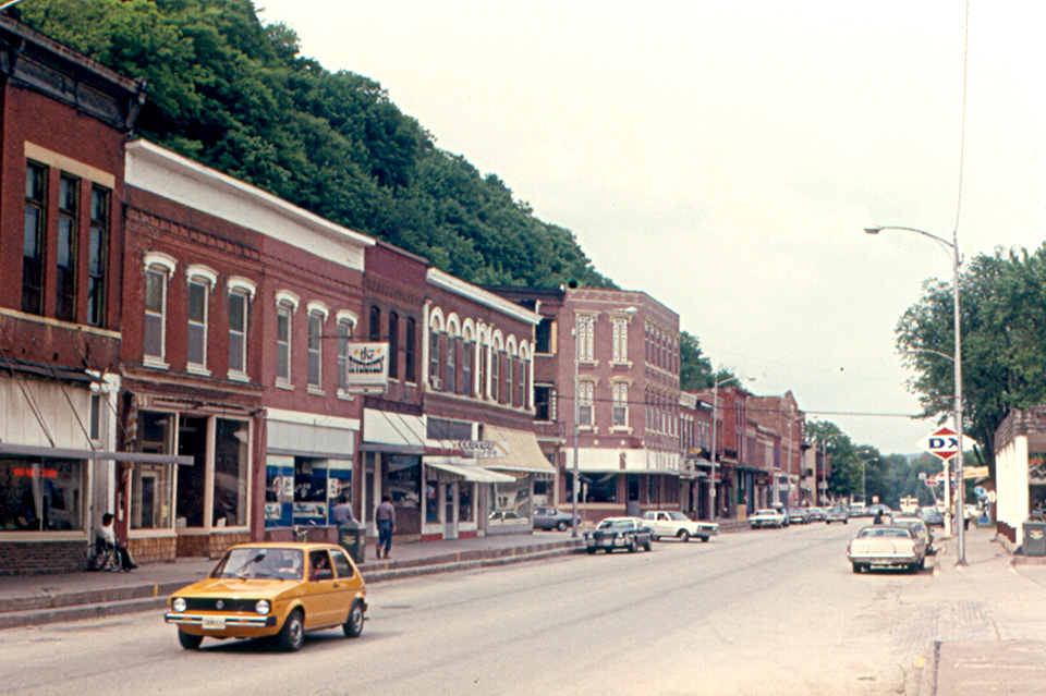 Marquette, Iowa is at the west end of the bridge over the Mississippi River from Prairie du Chien. McGregor is just to the south. The two are looked on as twin towns, and have a combined population of less than 1,000. John Ringling and his brothers, who were associates in the Ringling Brothers Circus, were born in McGregor. This photo is geotagged.